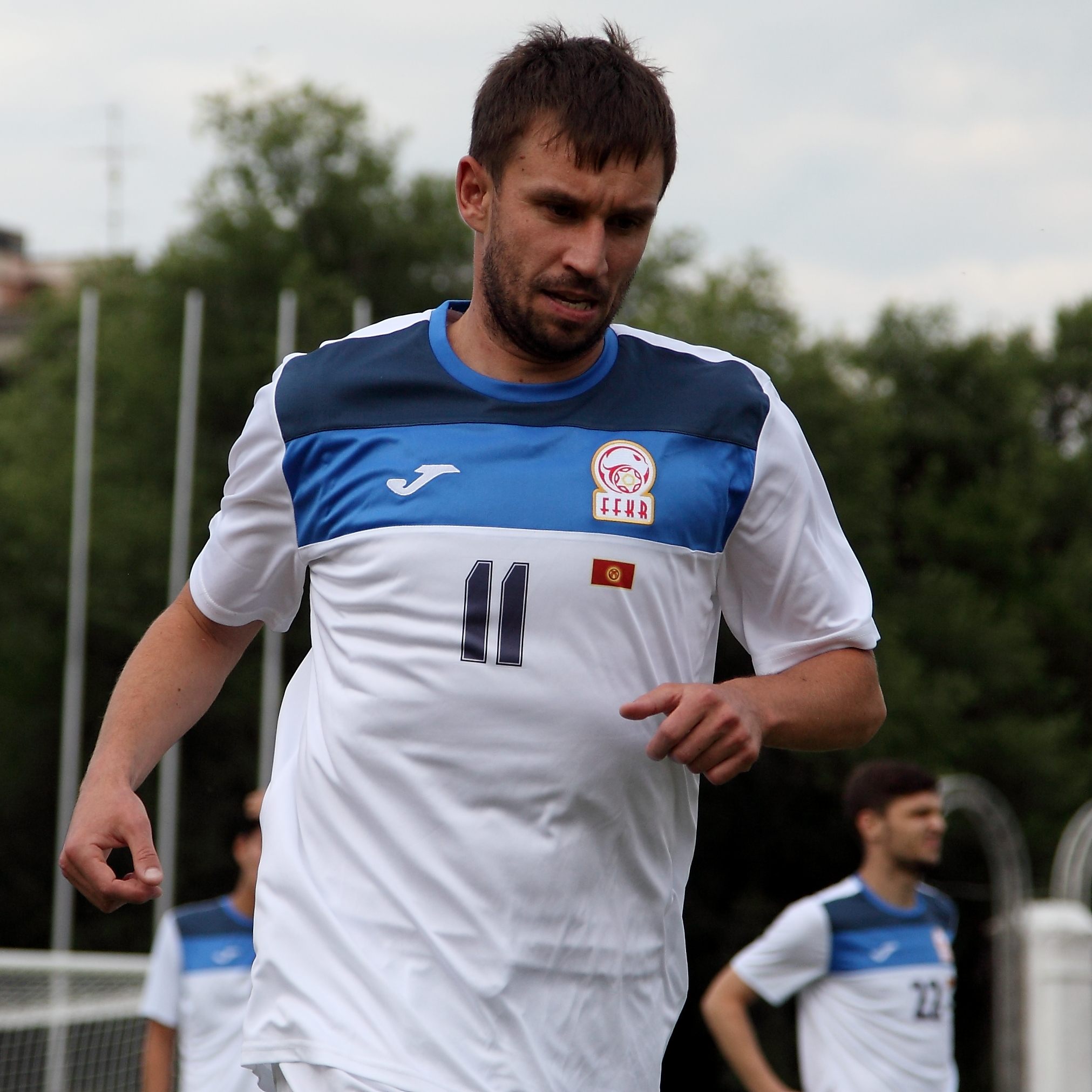 Vadim Kharchenko while training for Kyrgyzstan national football team in June 2015.